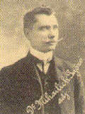 Győző Mihailich, engineer, university teacher